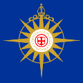 Flag of the Anglican Communion